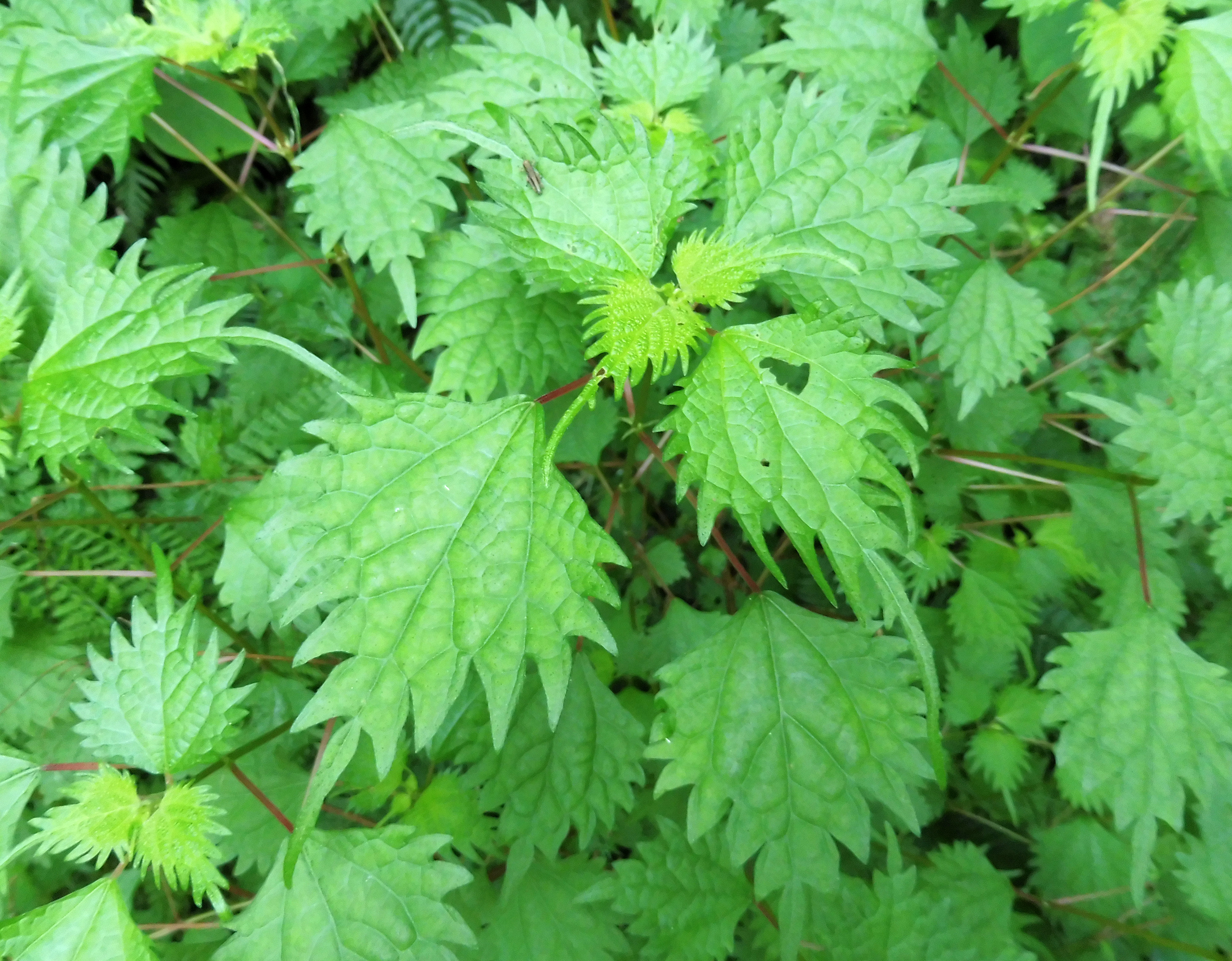 Boehmeria japonica var. tenera, at the edge of a forest. Located on the Diabutsu Hiking Trail, Kamakura, Kanagawa Prefecture, Japan.